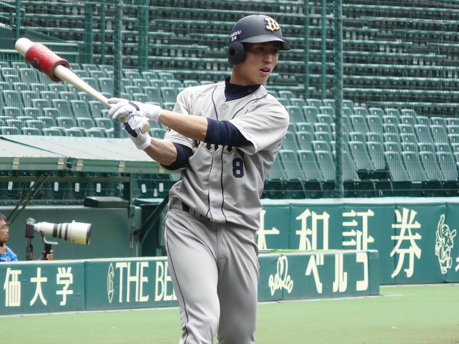 OB-Syunta-Goto20120501